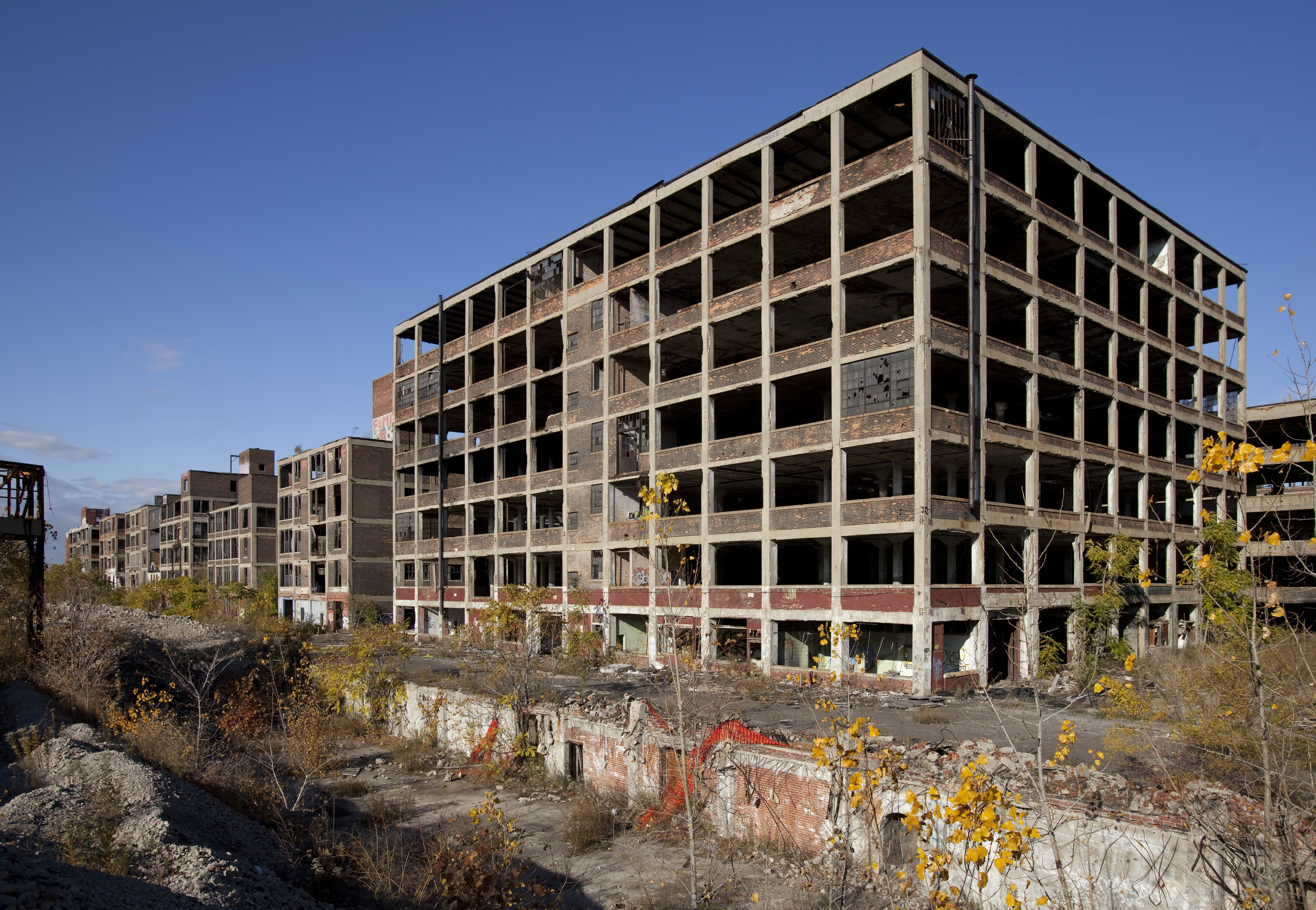 Western part of the abandoned Packard Automotive Plant in Detroit, Michigan.